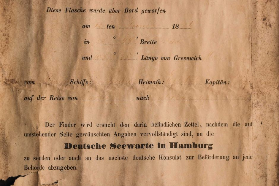 Message placed in bottle and jettisoned from German sailing barque Paula on June 12, 1886 as part of a scientific drift bottle experiment, probably under auspices of the German Naval Observatory. Bottle was discovered in Western Australia in early 2018.